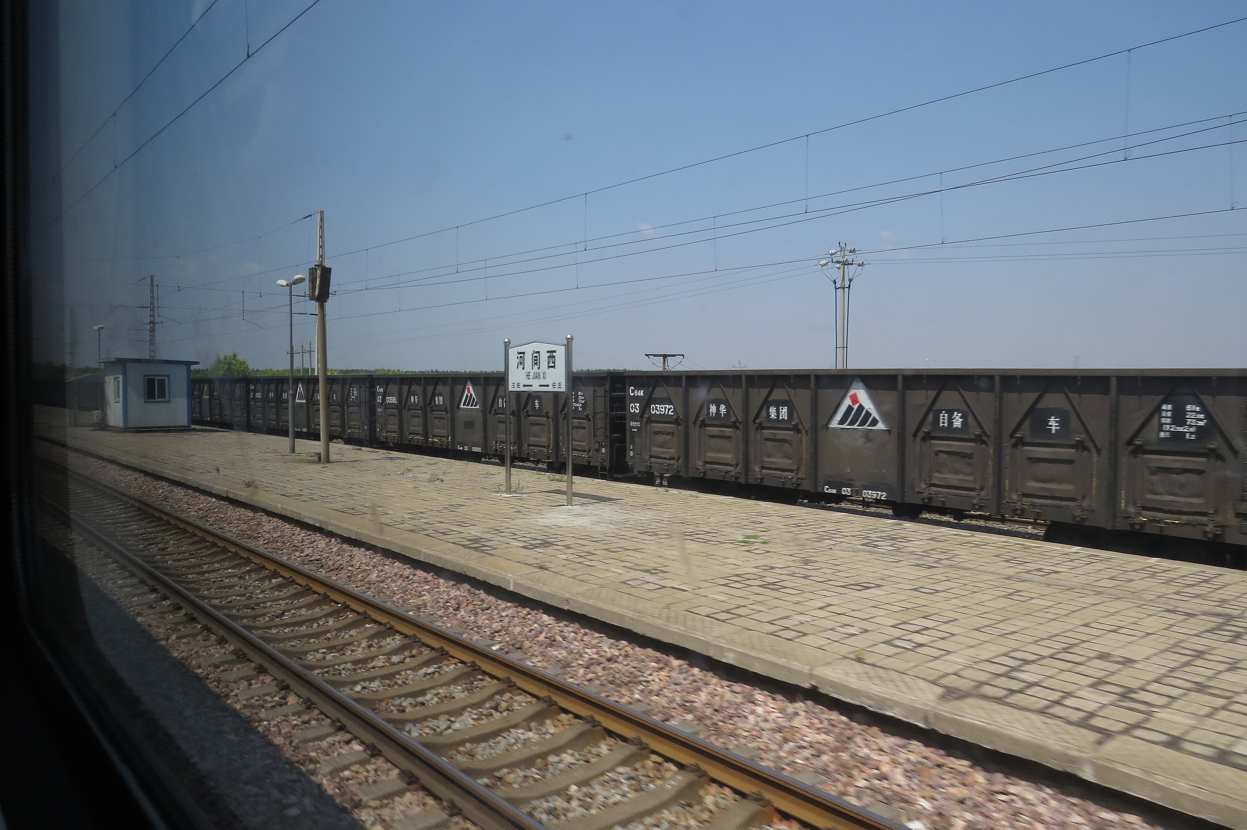 This is Hejian West Station - no donkey sandwiches.